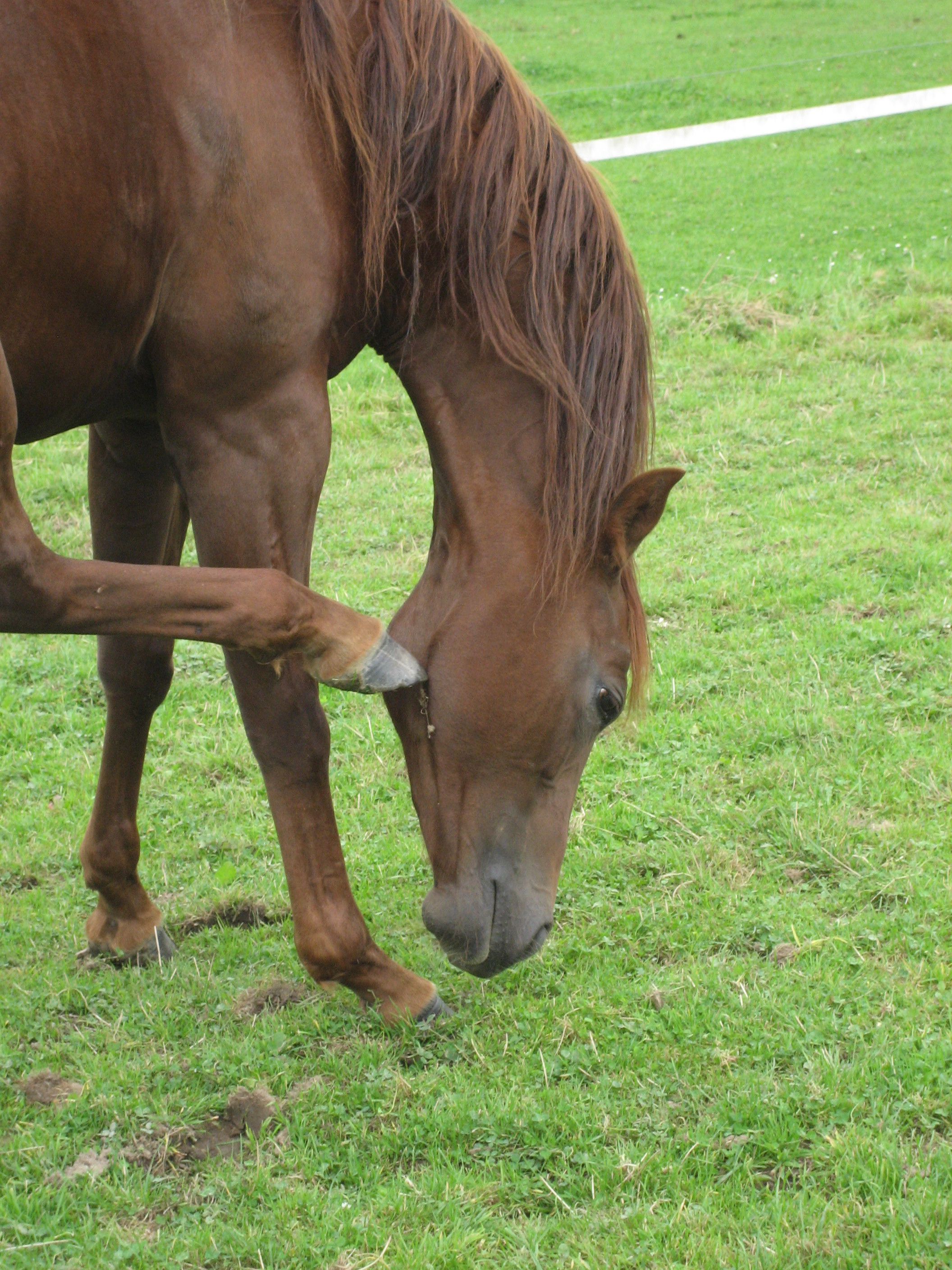 Blacksranch Quarter horses